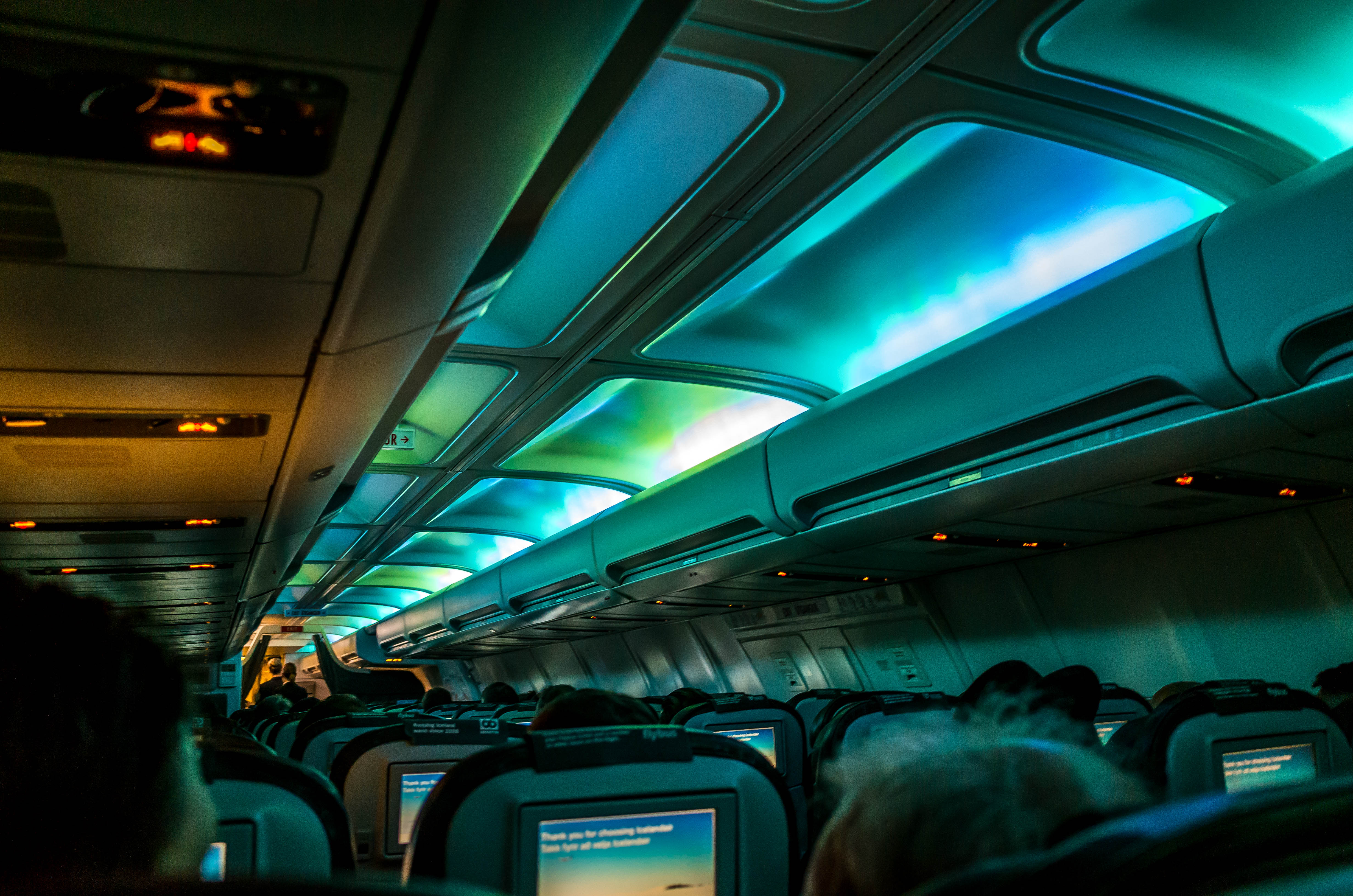 Northern Lights aboard our Icelandair flight to Reykjavik